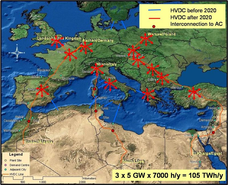 3 Analysed Samples for EU-MENA HVDC Interconnection